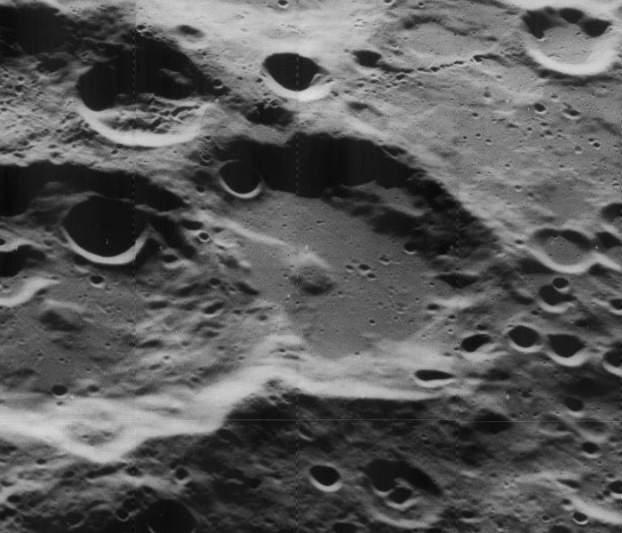 Oblique view of Comrie crater, on the far side of the moon, facing west.